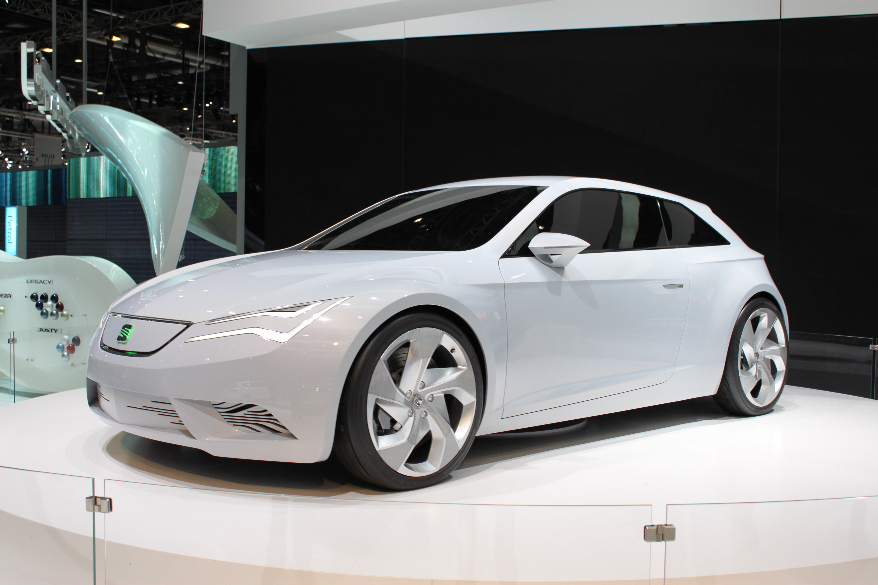 Seat IBE Concept at the 2010 Geneva Motor Show